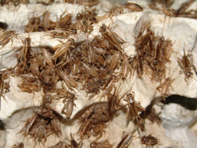 Crickets farm ອ່າງລ້ຽງຈີ່ຫຼໍ່